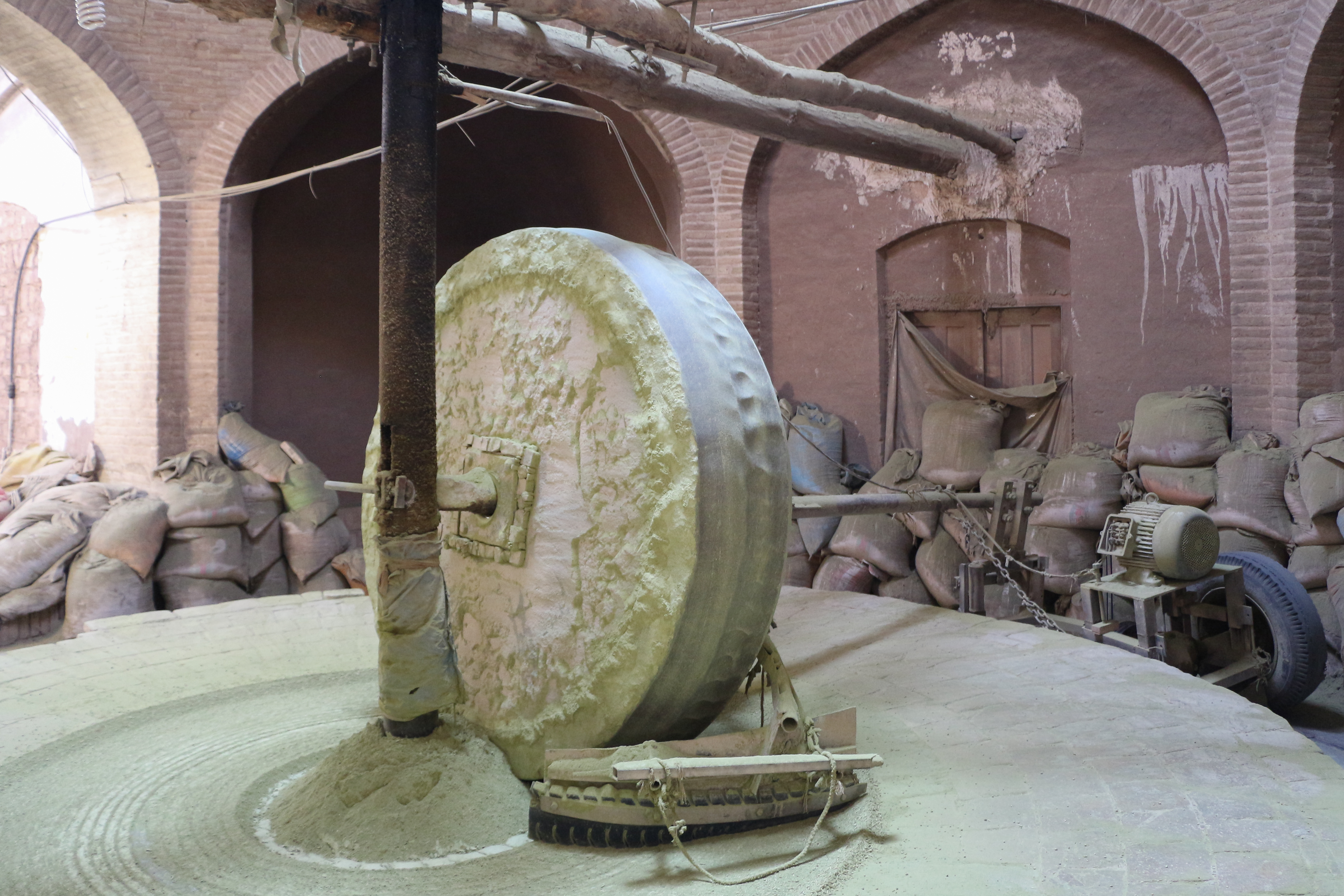 Henna millstone, Yazd, Iran